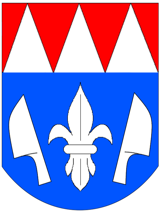 Erb of Hluchov